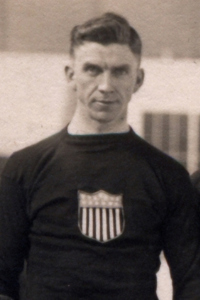 Canadian-American ice hockey player Joseph McCormick representing the US national ice hockey team at the 1920 Summer Olympics in Antwerp, Belgium. The picture is a crop out of a larger team photo taken inside the ice rink Palais de Glace d'Anvers. The ice hockey tournament at the 1920 Summer Olympics took place between April 23 and April 29. The american team won silver medals at the games.